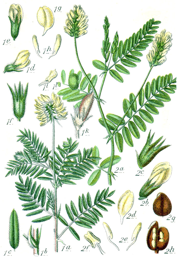 1. Oxytropis pilosa (L.) DC., syn. Astragalus pilosus L. 2. Astragalus cicer L. Original Caption 1. Fahnenwicke, Astragalus pilosus 2. Kichertragant, A. cicer